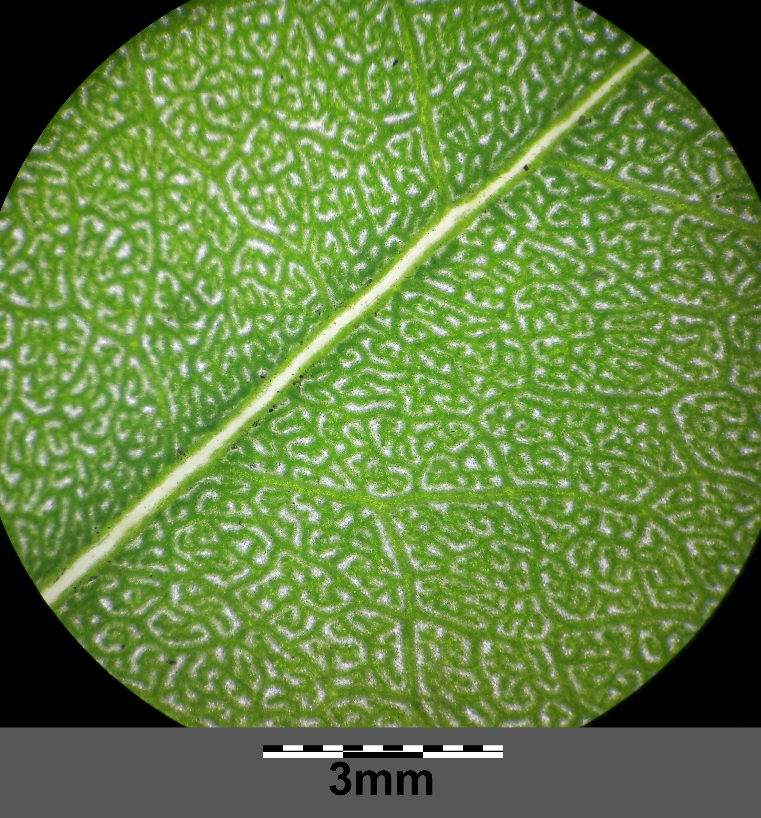 Bottom side of leaf (with background lighting) with regular, tight branched veins of C4 plants Taxonym: Atriplex tatarica ss Fischer et al. EfÖLS 2008 ISBN 978-3-85474-187-9 Location: Sinawastingasse, Vienna-Floridsdorf - ca. 160 m a.s.l. Habitat: dry, ruderal slope